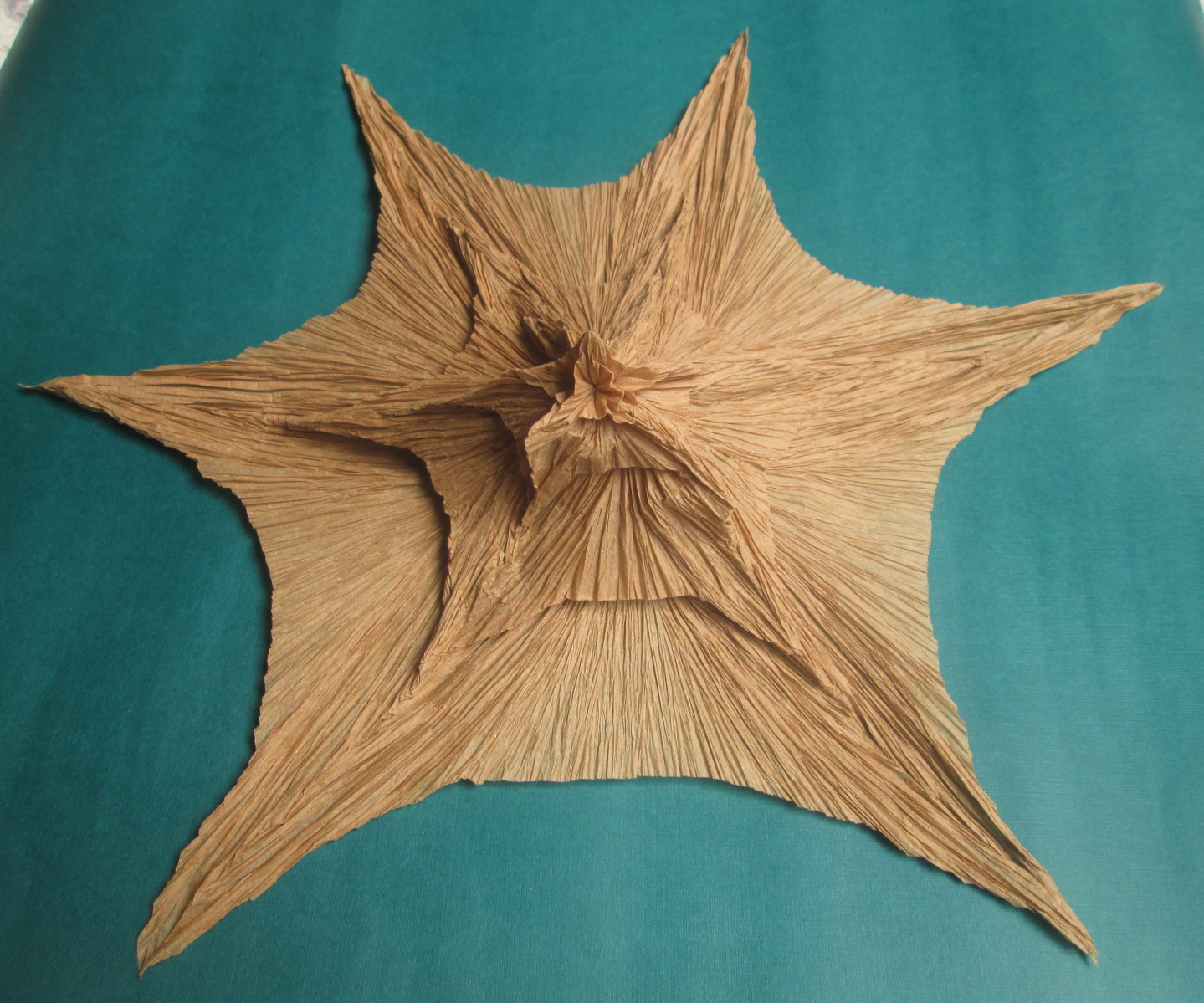 Artichoke froissing origami by Vincent Floderer